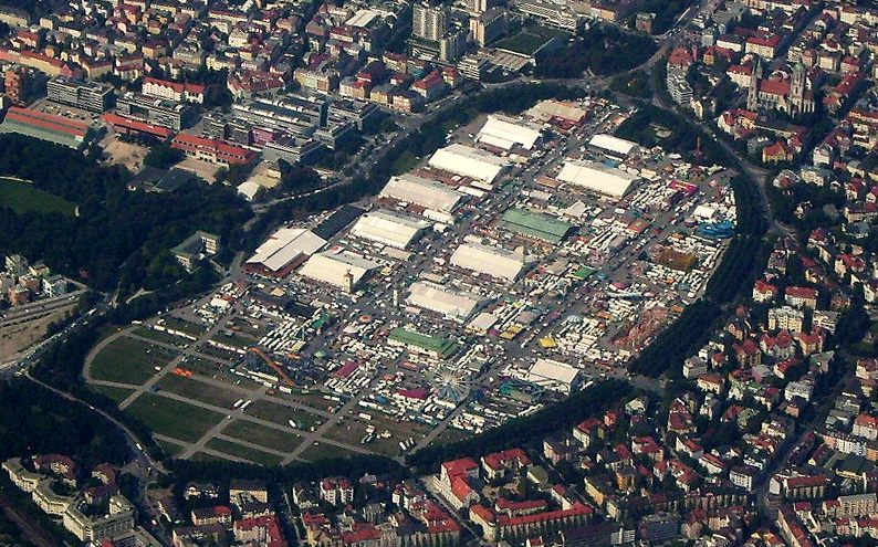 Munich Oktoberfest 2006, one day before opening, aerial photo